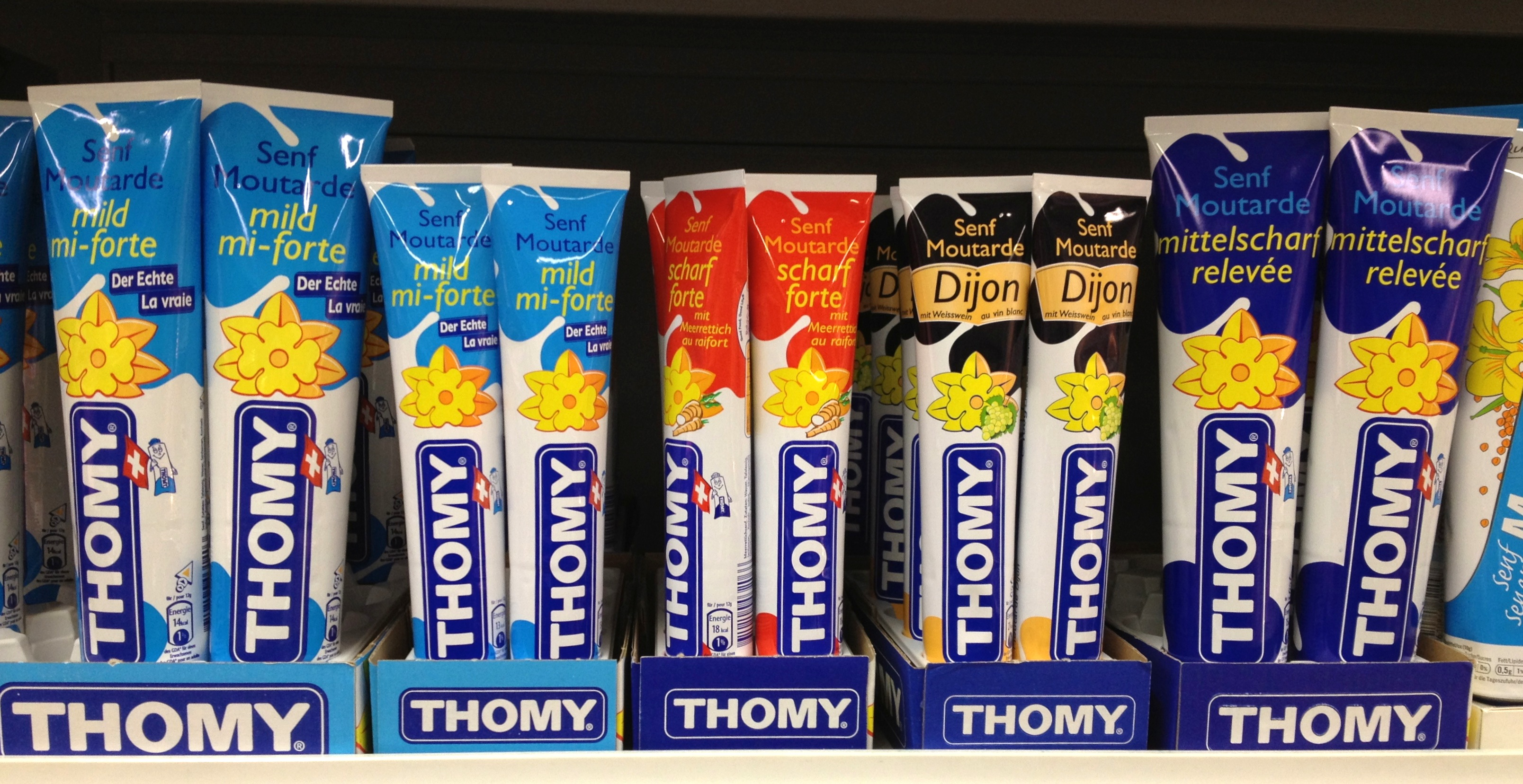 Thomy-Senf Tuben